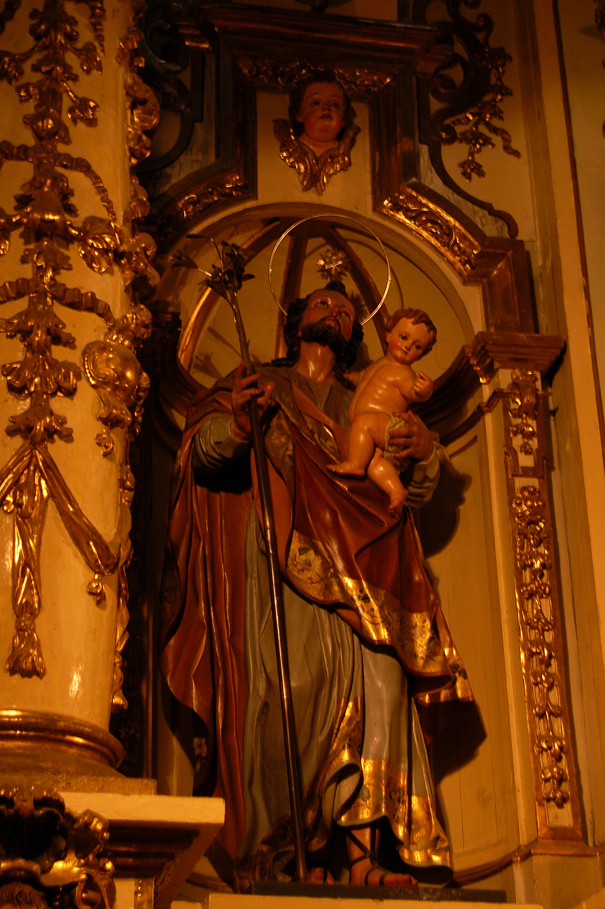 San Xosé de Gambino na Igrexa da Nosa Señora dos Remedios en Santiago de Compostela